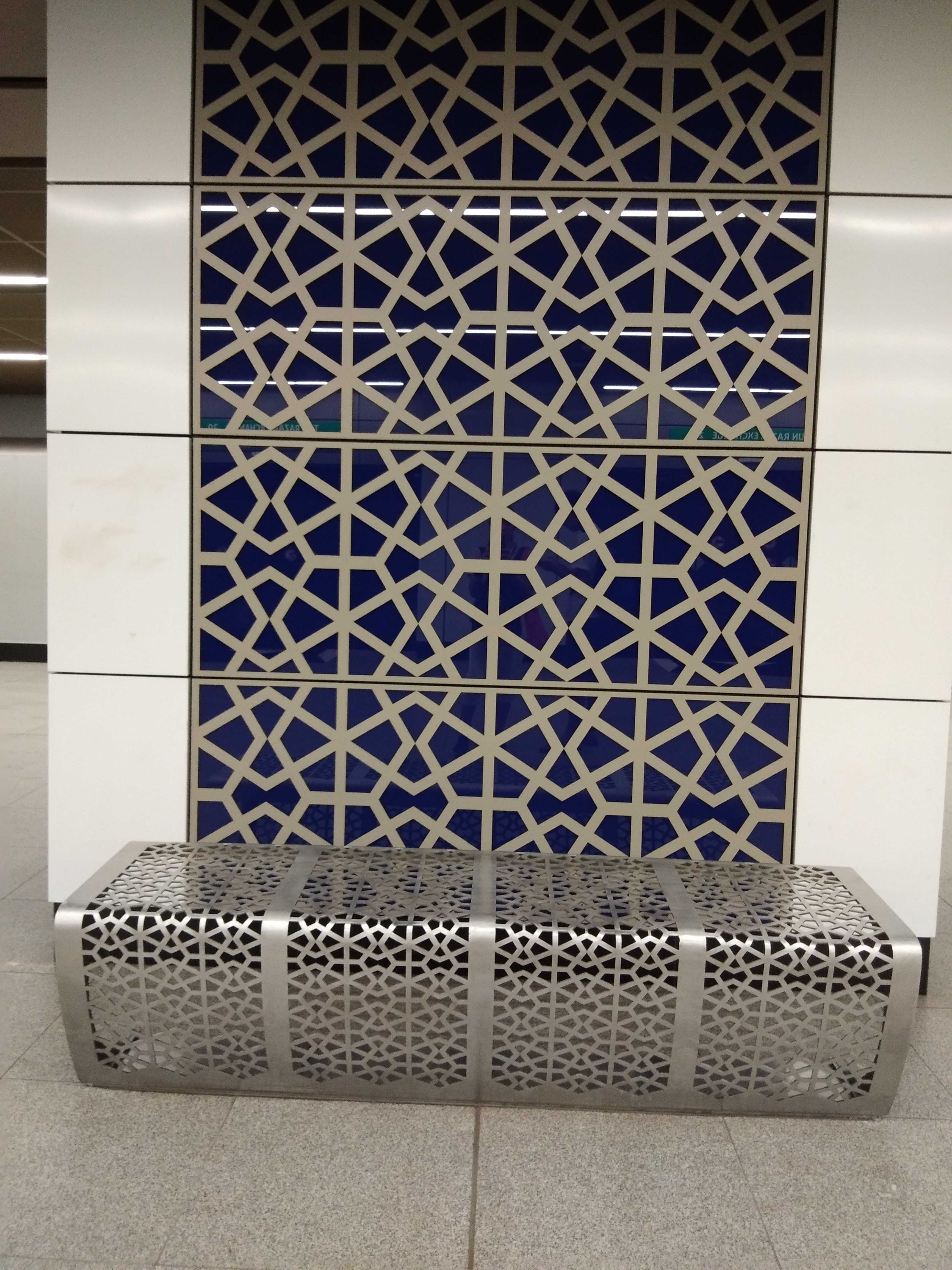 The Islamic design wall and bench in the station.